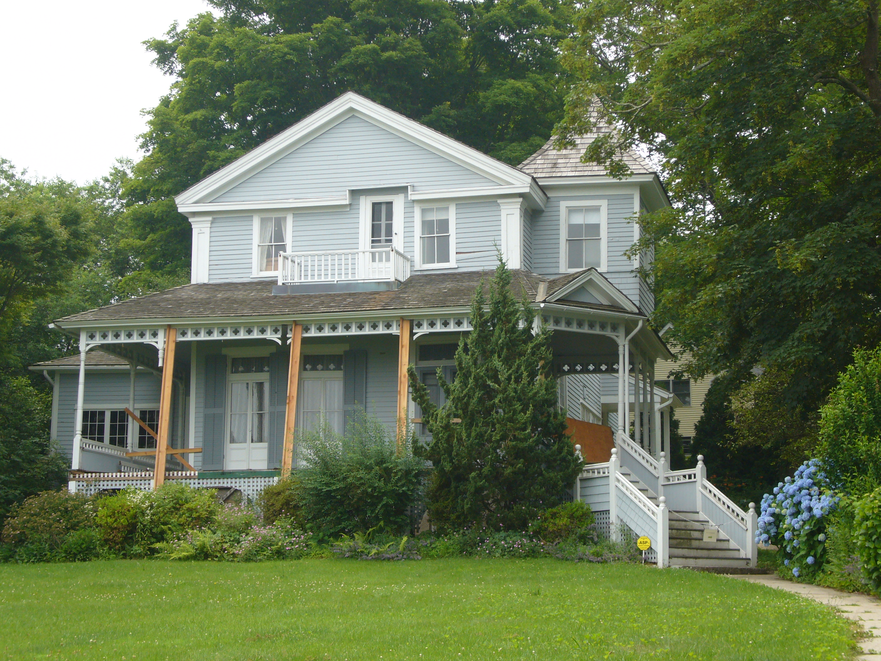 Monte Cristo Cottage, New London, Connecticut, USA (exterior)